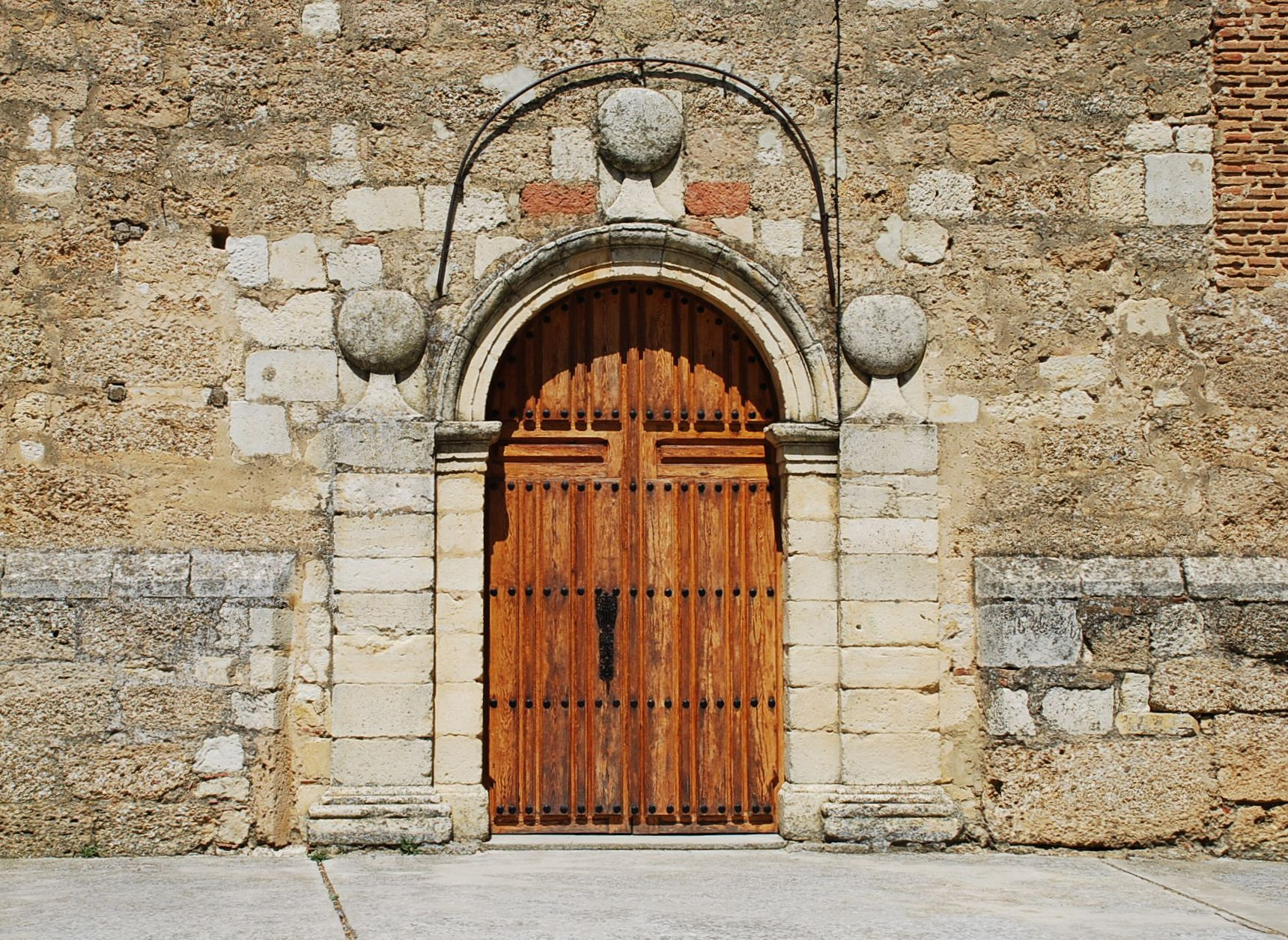 Main gate of Saint Esteban Church in Renedo de Valdavia (Palencia, Castile and León).